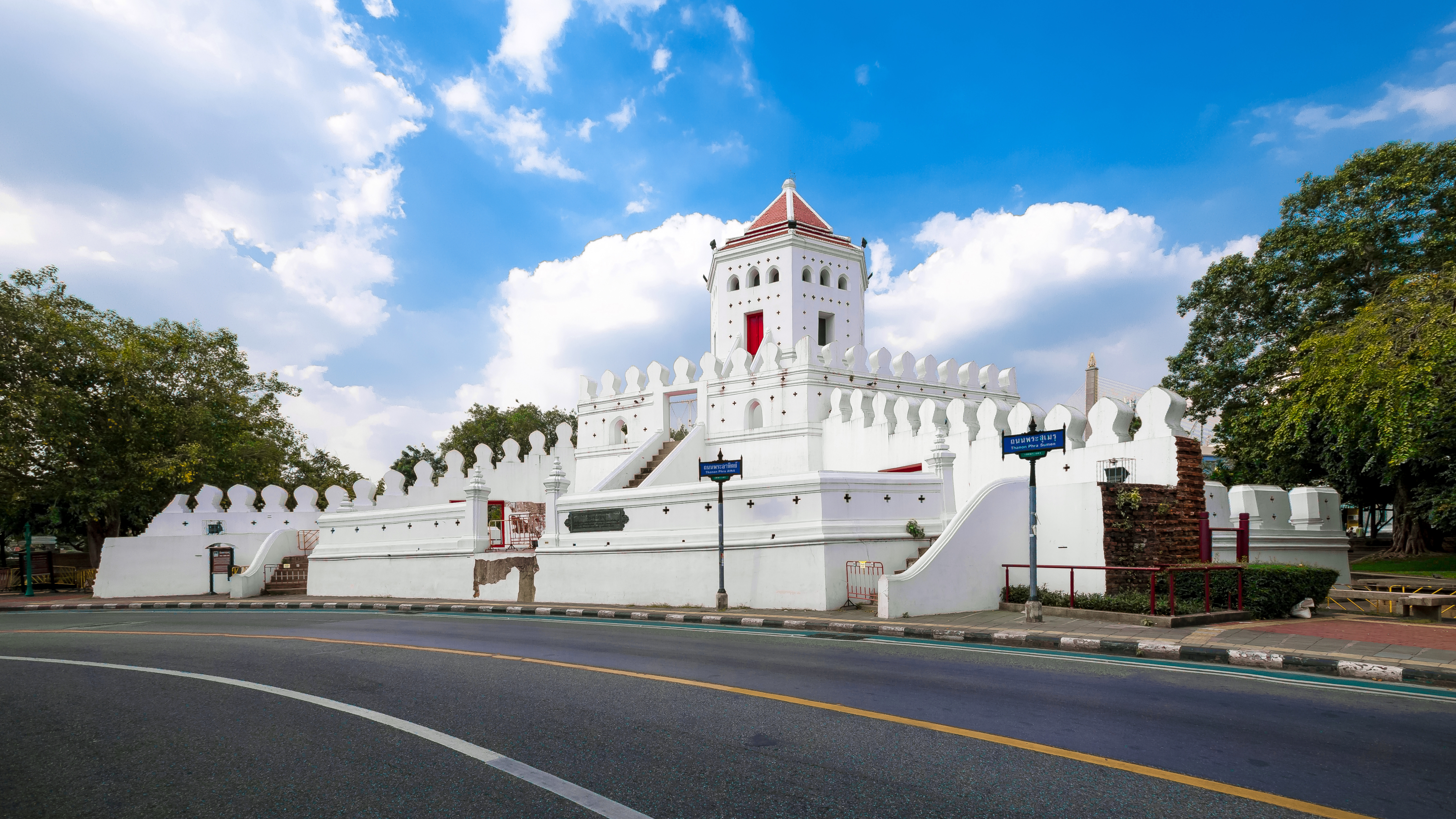 Fort Phra Sumen, Bangkok, Thailand